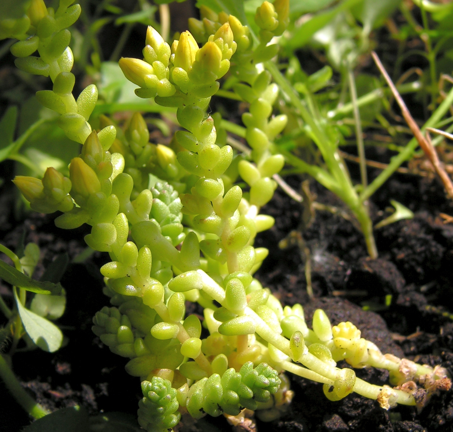 Sedum acre with the flower buds. Moscow region, Russia.